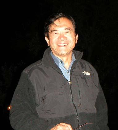 Together with a friend of Anthony Zee, we took the picture. I acquired the rights and release the picture to the public domain.